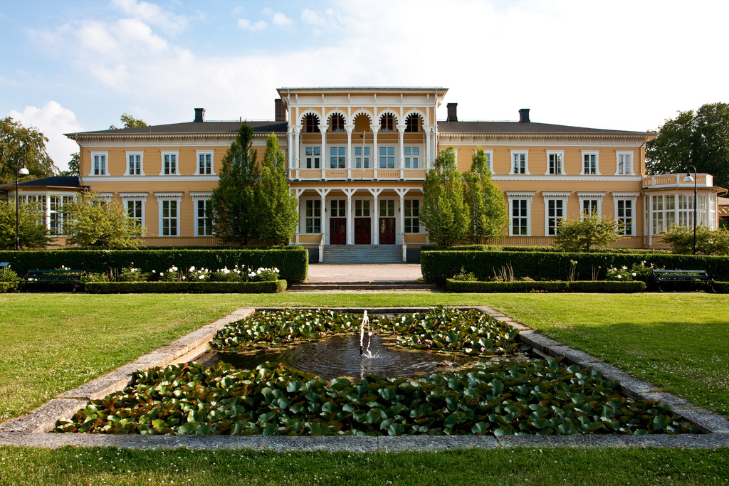 Ramlösa brunnshotell, Stora hotellet